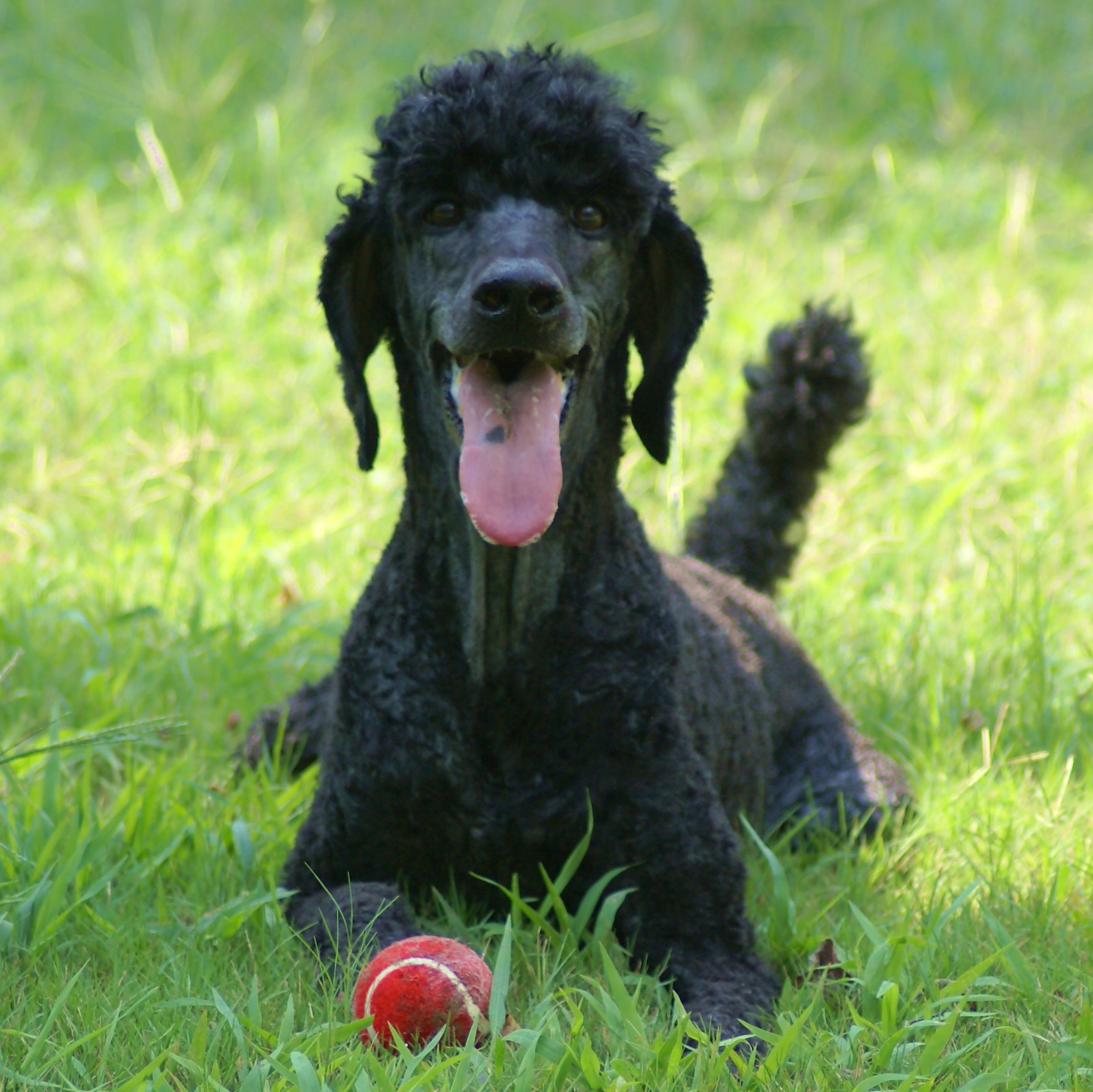 A black Standard Poodle (Caniche).